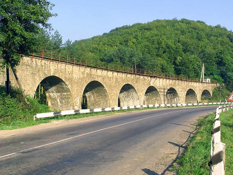 Viaduct nearly Terebovlya Ukraine